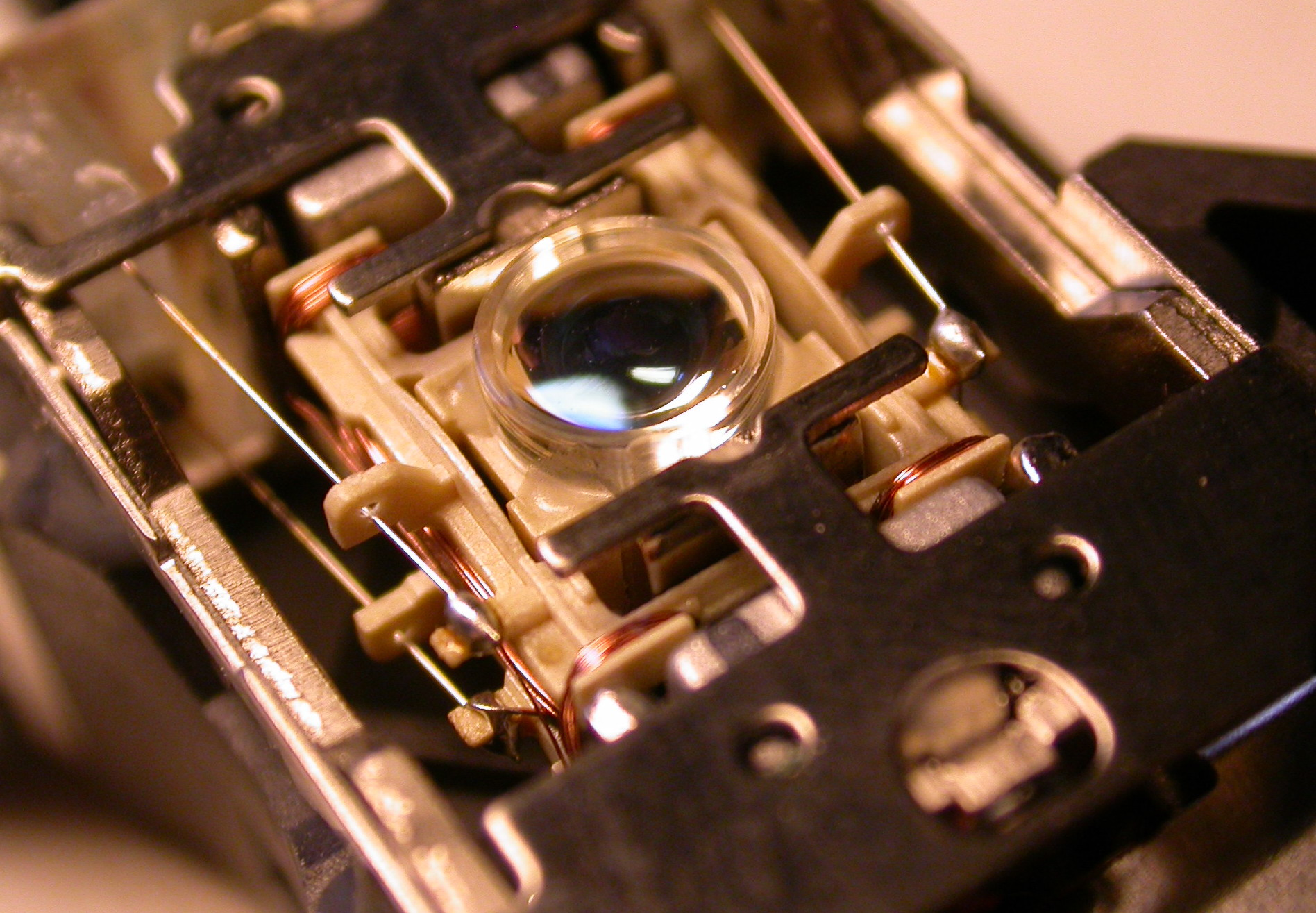 The lens of a compact disc drive and its associated mechanism.